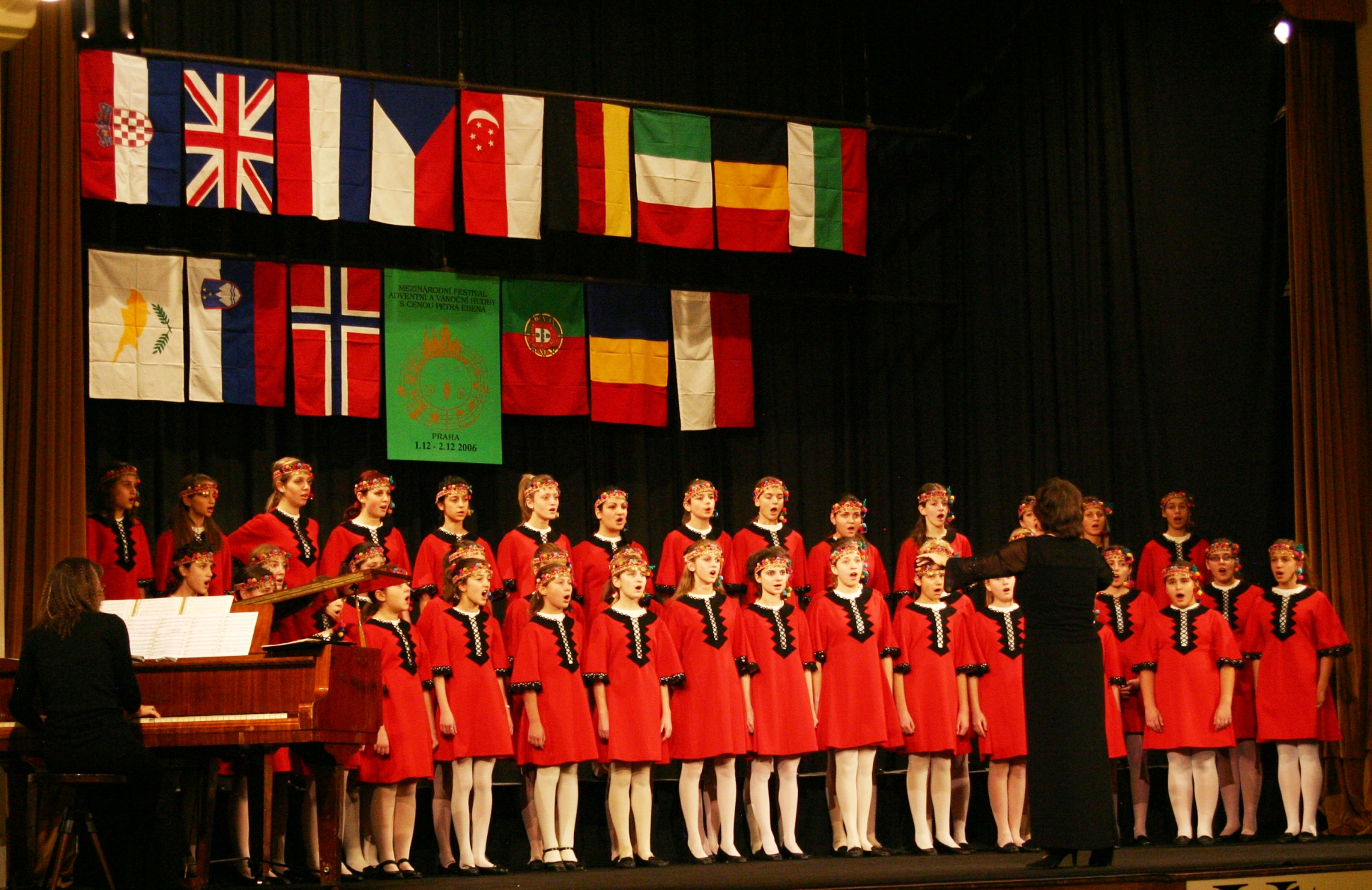 The Detska Kitka Choir at the International Festival of Advent and Christmas Music in Prague (2006). Under the direction of Prof. Zlatina Deliradeva the choir won Gold Medal in the children's category and the Grand Prix of the festival.